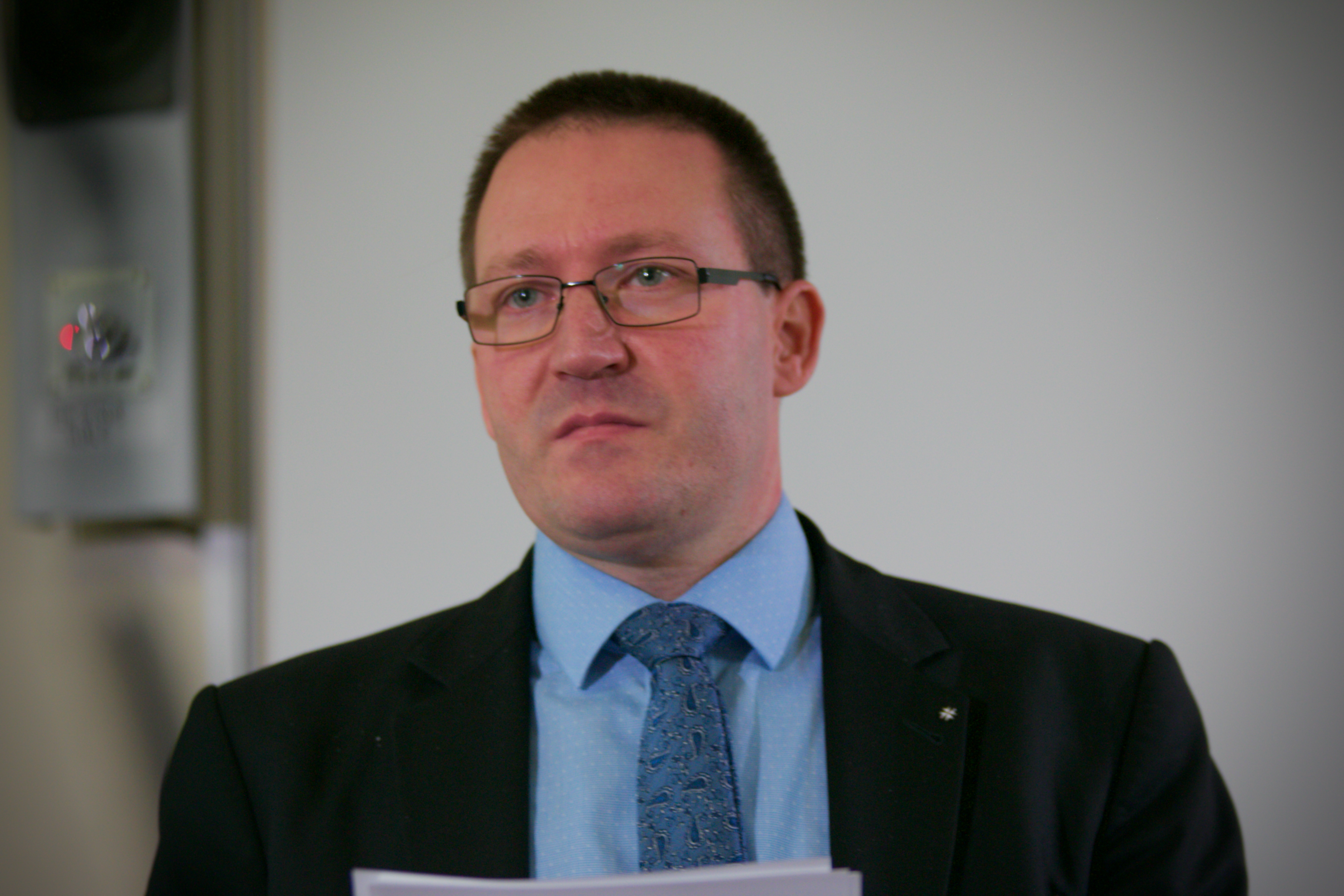 Reverend Dr Mario Fischer is the General Secretary of the Community of Protestant Churches in Europe